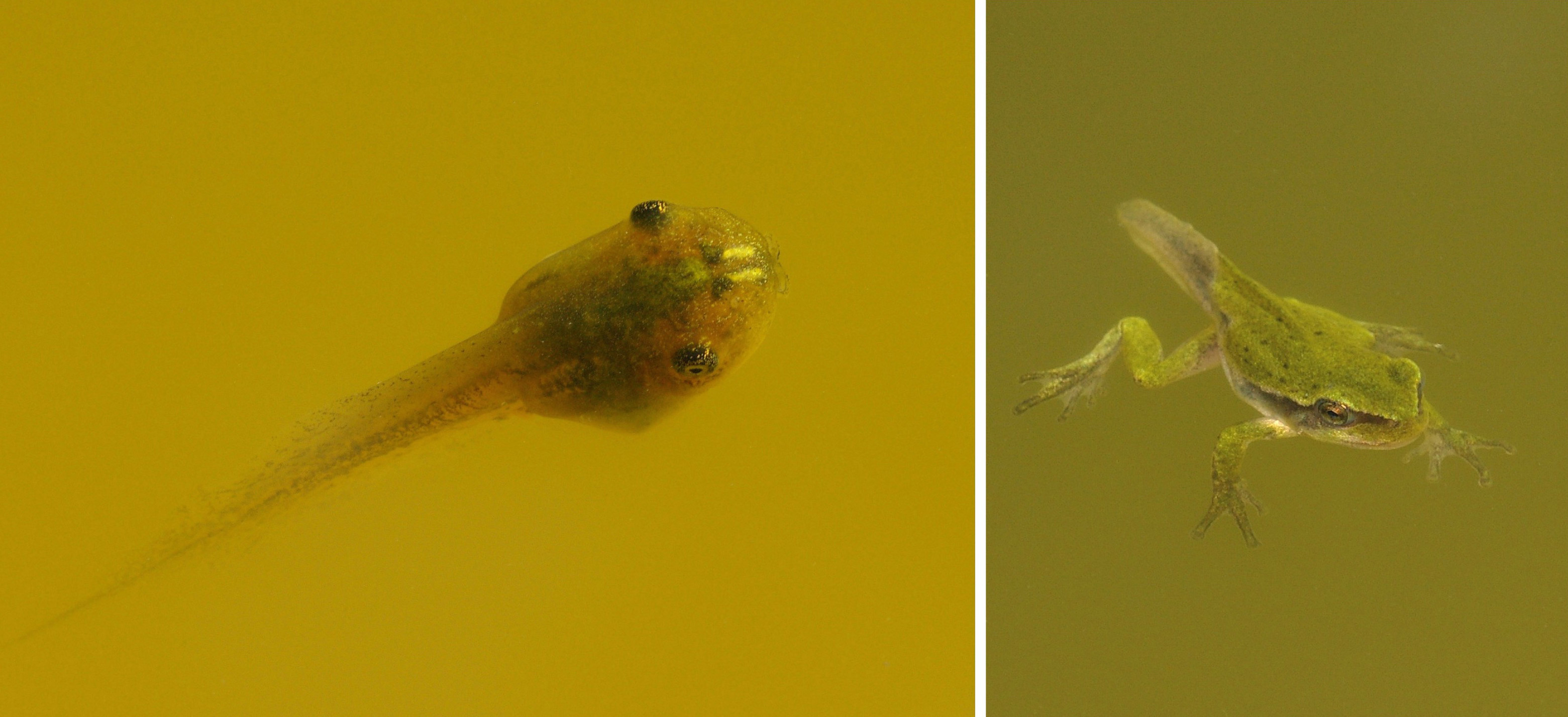 Tadpoles of the European Tree Frog, Hyla arborea, floating just below the surface of a turbid pond. The right specimen is nearly completely metamorphosized to a frog.